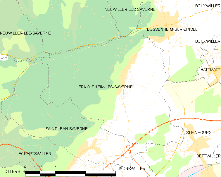 Map of French municipality